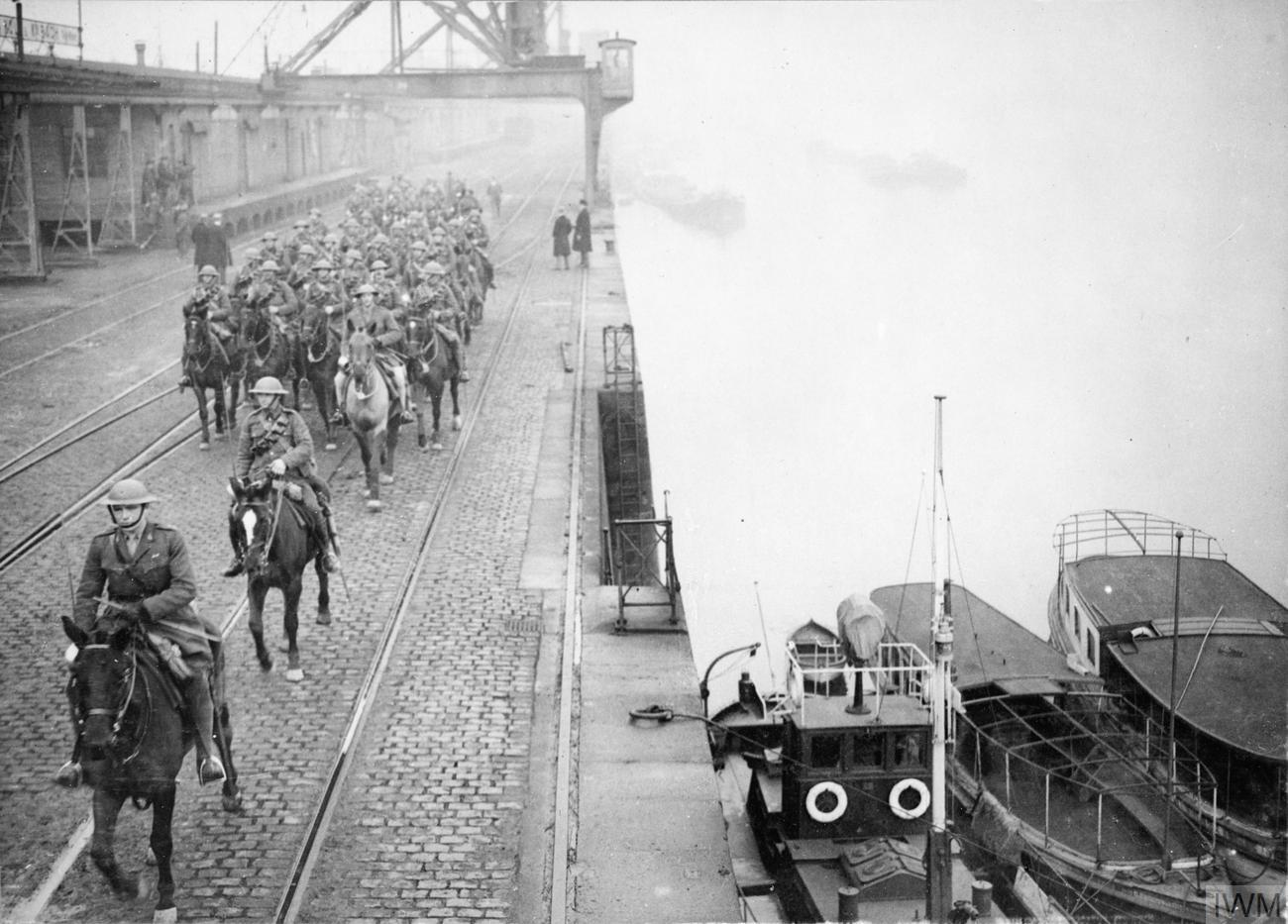 The British Army of the Rhine, 1919-1929 Two troops, B Squadron, 18th Hussars on duty at the docks in Cologne, 6 December 1918. Note armed civilians acting as police.